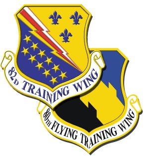 Emblems of the 80th and 82d TW at Sheppard AFB, Texas Source: USAF